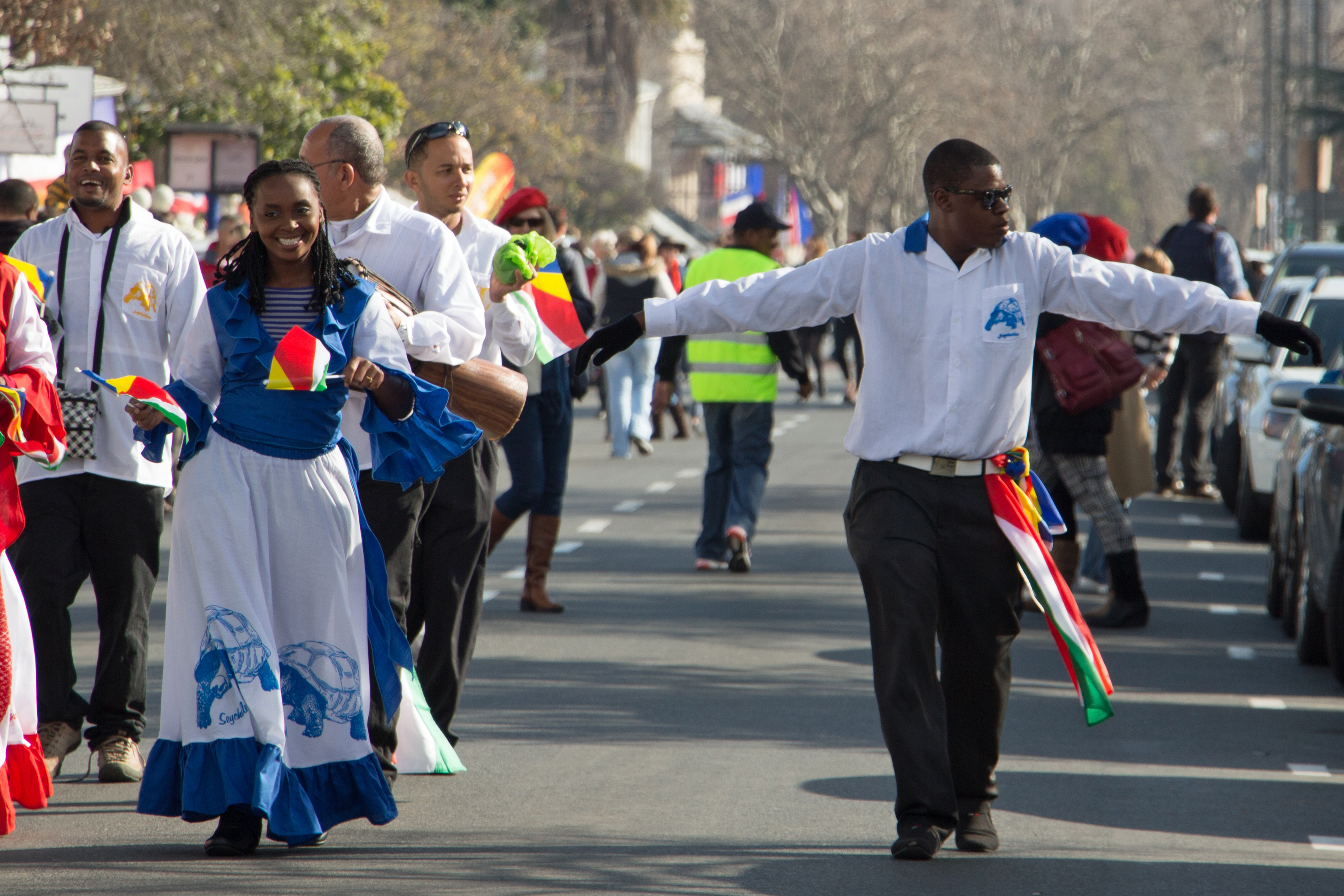 Sega dancers from the Seychelles at the Franschhoek Bastille Festival 2014 street parade